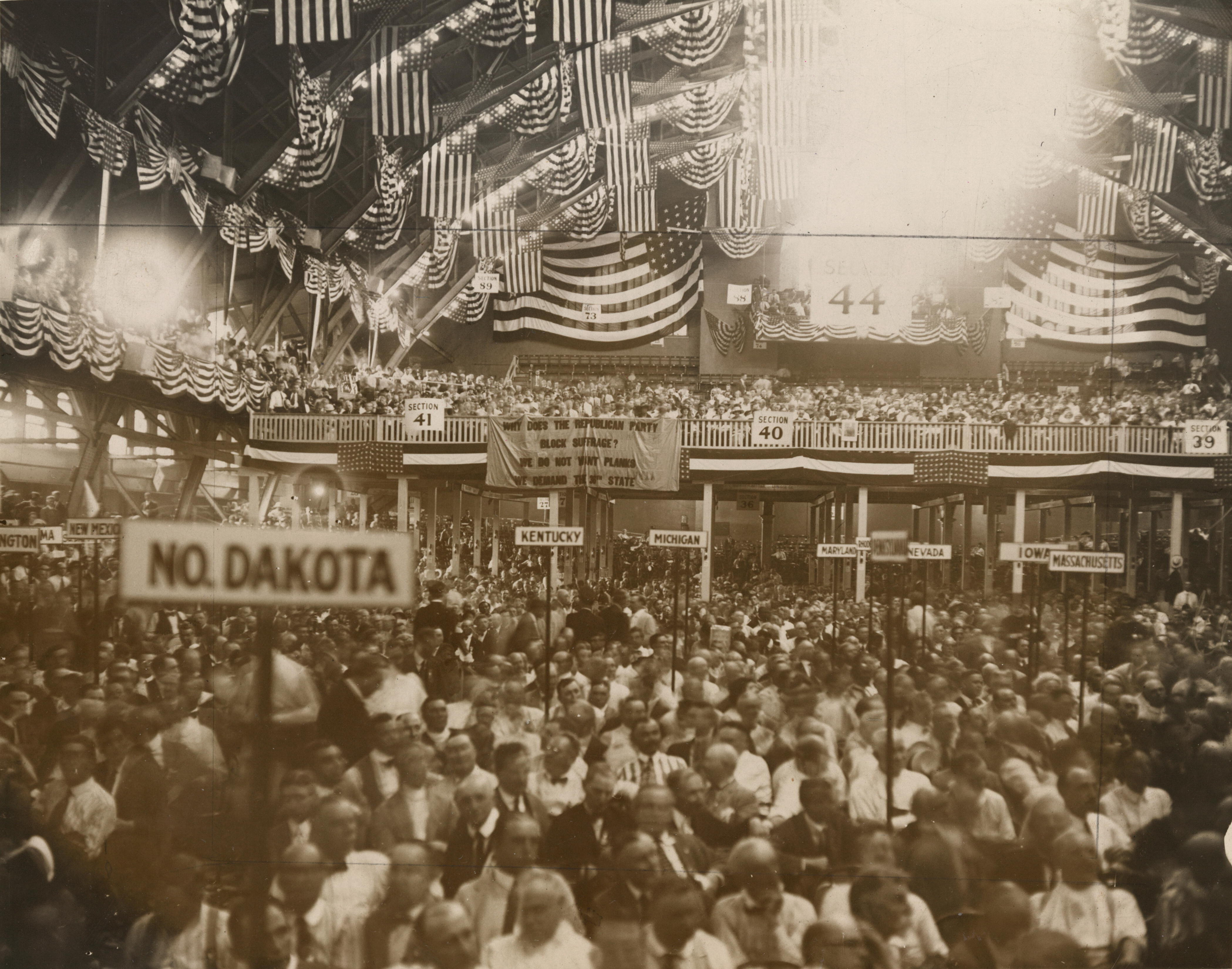 Photograph of Republican Convention with crowds of people, state signs, and ceiling festooned with American flags and bunting. In the background, hanging from balcony, is a banner, "Why does the Republican Party Block suffrage? We do not want [word illegible] We demand the 36th state." Title= Party banner decorating the balcony at the Republican Convention in Chicago, June 1920.